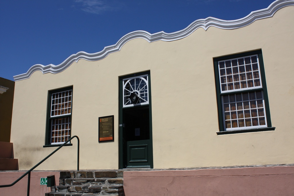 This media shows a South African Protected Site with SAHRA file reference 9/2/018/0264/001.